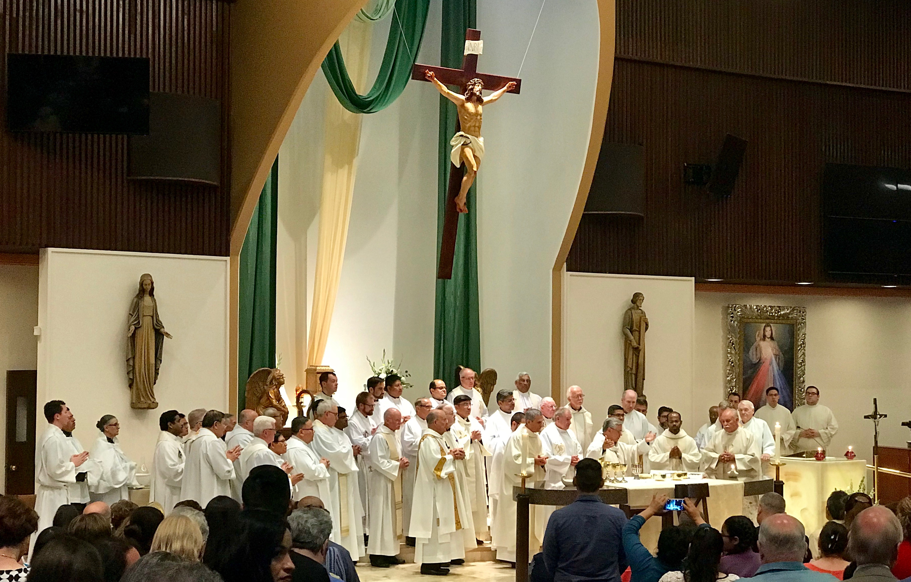 Fr Lucio Zuniga Rocha ordination at Little Flower Reno Nevada on 1 June 2018